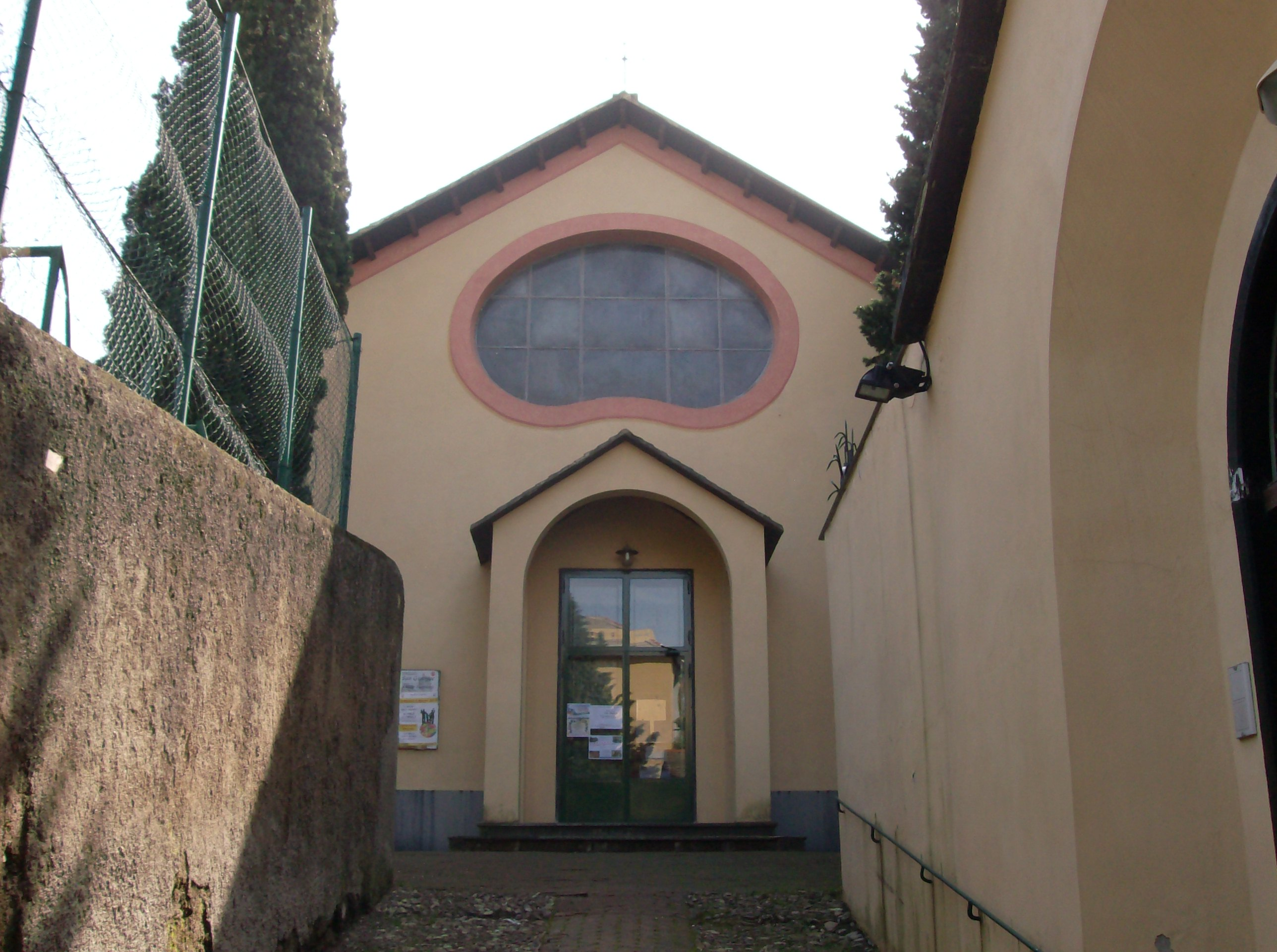 Our Lady of Lourdes and St. Bernardino's church, Genoa - Entrance